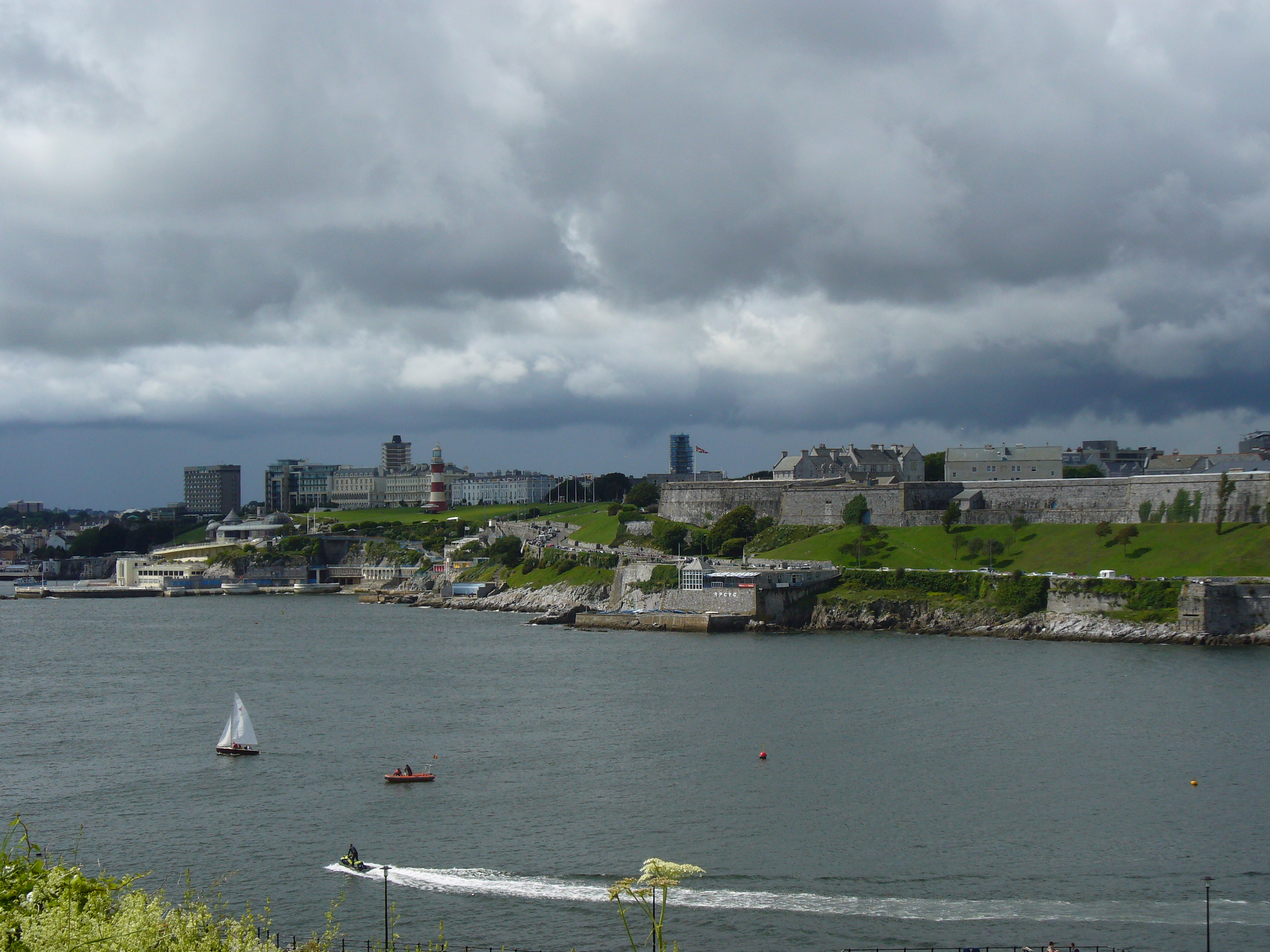 View of Plymouth, Devon, England, showing Plymouth Hoe and the Royal Citadel from Mount Batten.